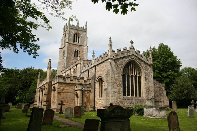 Parish church of St John the Evangelist, Carlton in Lindrick, Nottinghamshire, seen from the east